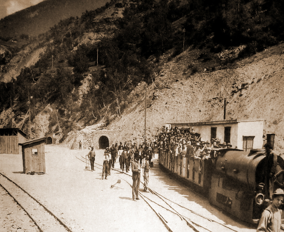 Simplon tunnel - North portal, Brig, the construction period